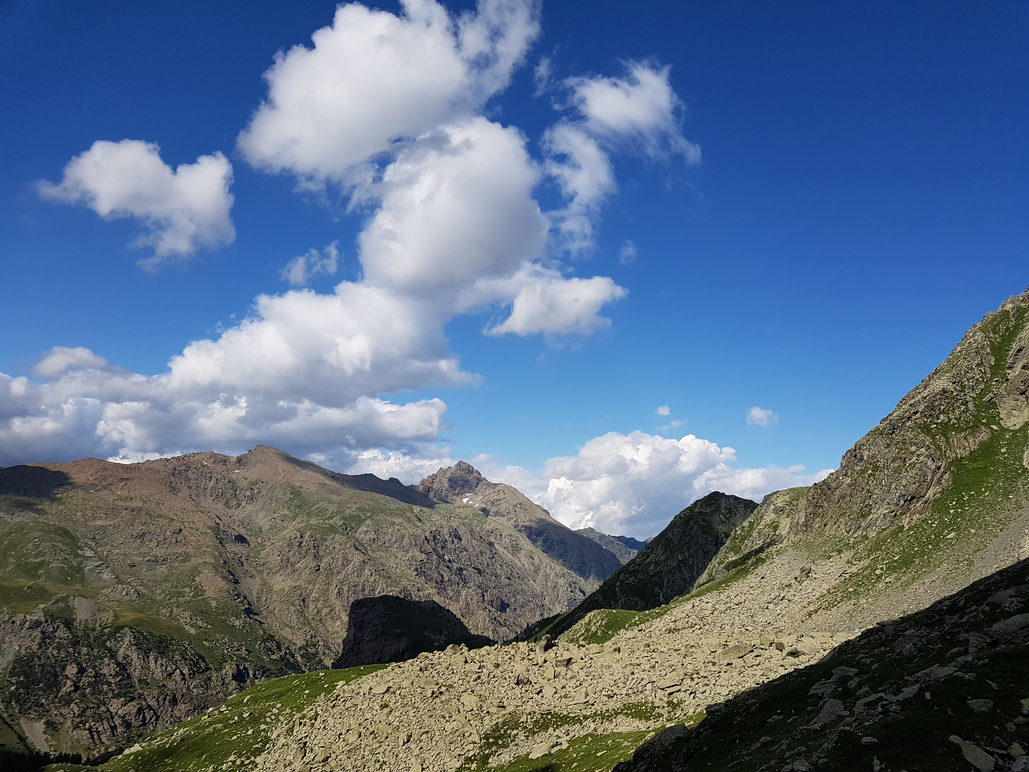 Panoramic view to Ala Valley